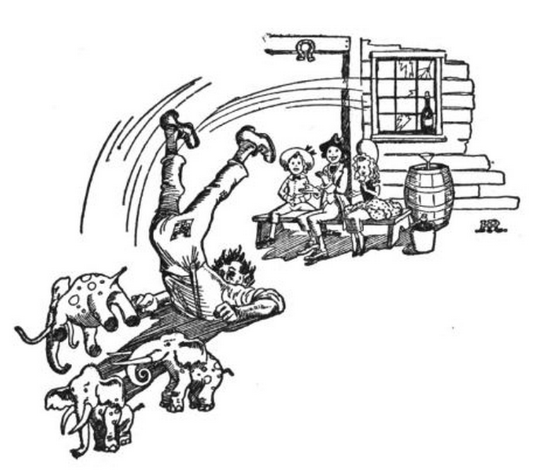 Little Elmer's father's DT's delight the children. Pink elephants present